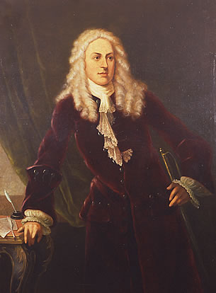 Portrait of Virginia Colonial Governor Robert "King" Carter